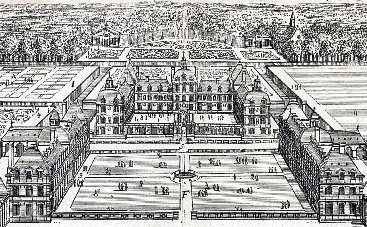 General perspective view (looking east) of the Château de Richelieu, detail of a plate from from Le Magnifique Chasteau de Richelieu... by Jean Marot